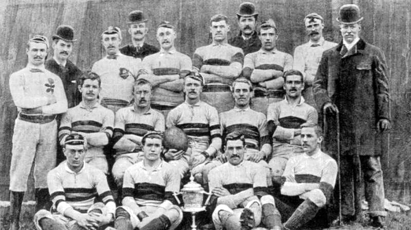 Team of Huddersfield F.C. with the Yorkshire Cup won after beating Wakefield Trinity at Thrum Hall.